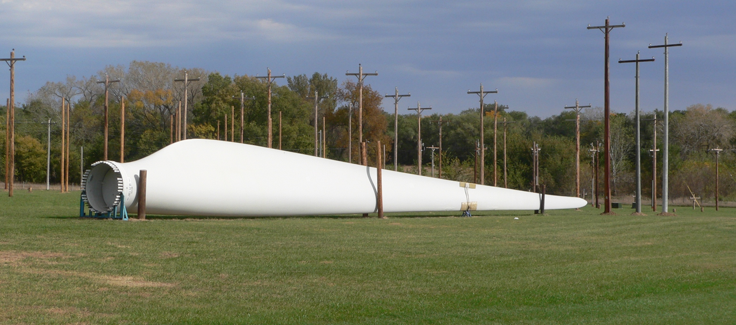 Wind turbine blade used for instruction at Northeast Community College in Norfolk, Nebraska.